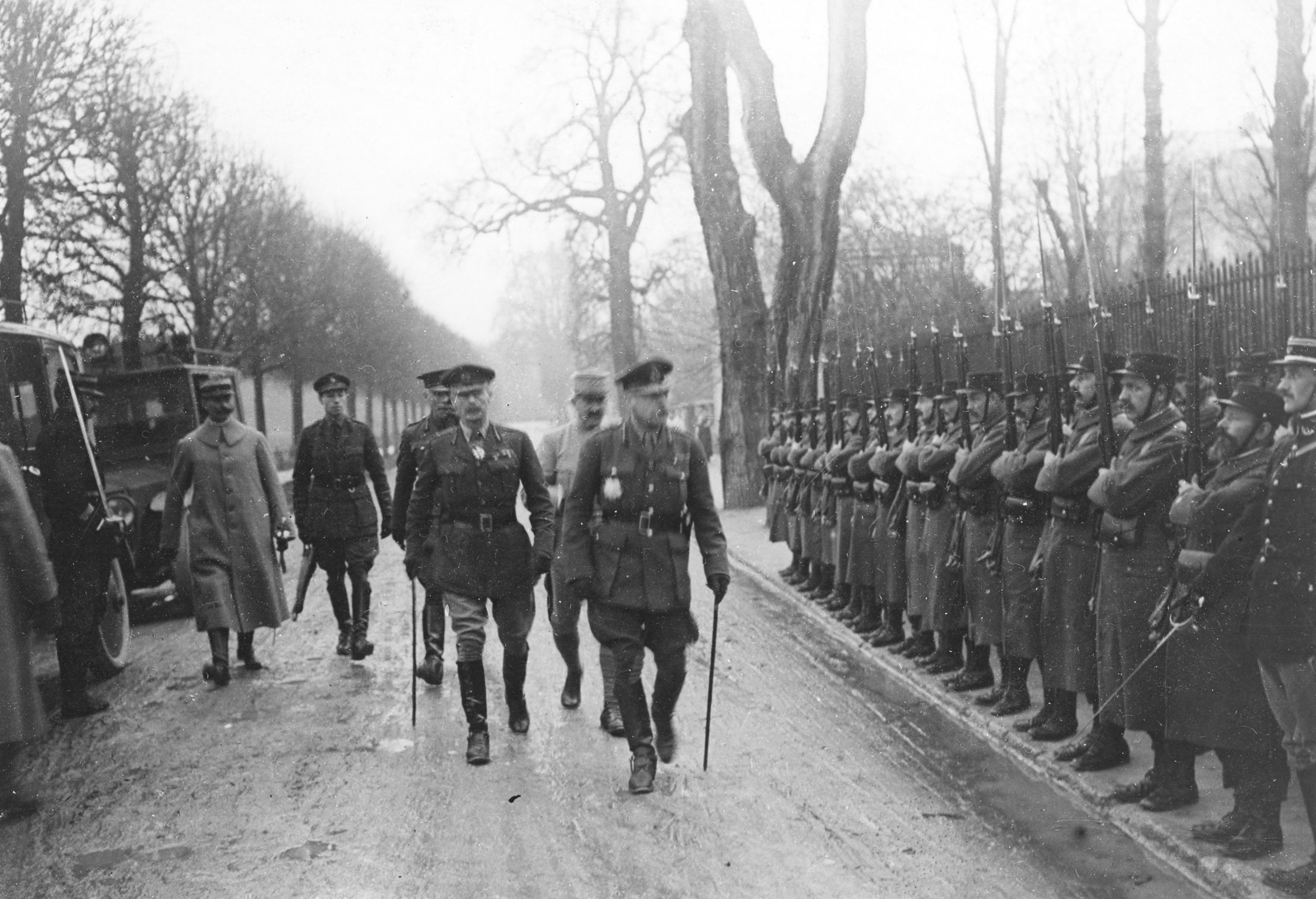 Haig in Chantilly, France, December 1915. This photograph, which has a French press stamp, shows Field Marshal (Earl) Haig (1861-1928) walking down a road from his car past a line of French soldiers. At the beginning of the war, French infantry wore red trousers with a dark grey/blue overcoat with an upright collar. In the spring of 1915 these began to be replaced by less visible horizon-blue uniforms, the new greatcoats having lapels like those on the coats worn by these soldiers. Haig was probably arriving at the Second Inter-Allied Conference which took place in Chantilly in December 1917. Its aim was to find ways in which the separate armies could co-ordinate better. [Original reads: 'Dec.1915. Chantilly - Arrivee du Gal. Douglas Haig.']